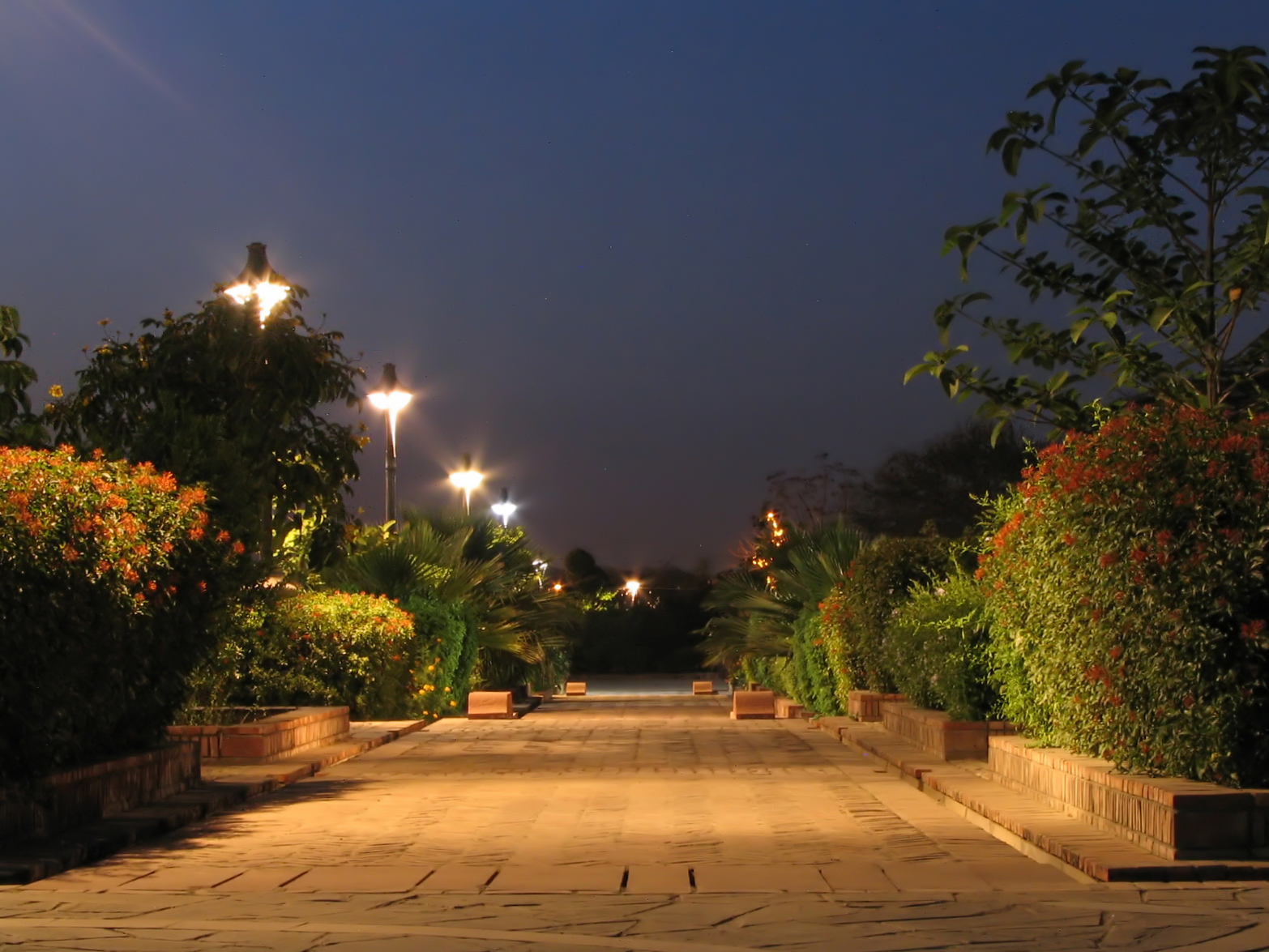 Park lighting. A night photograph taken at Garden of Five Senses, Delhi